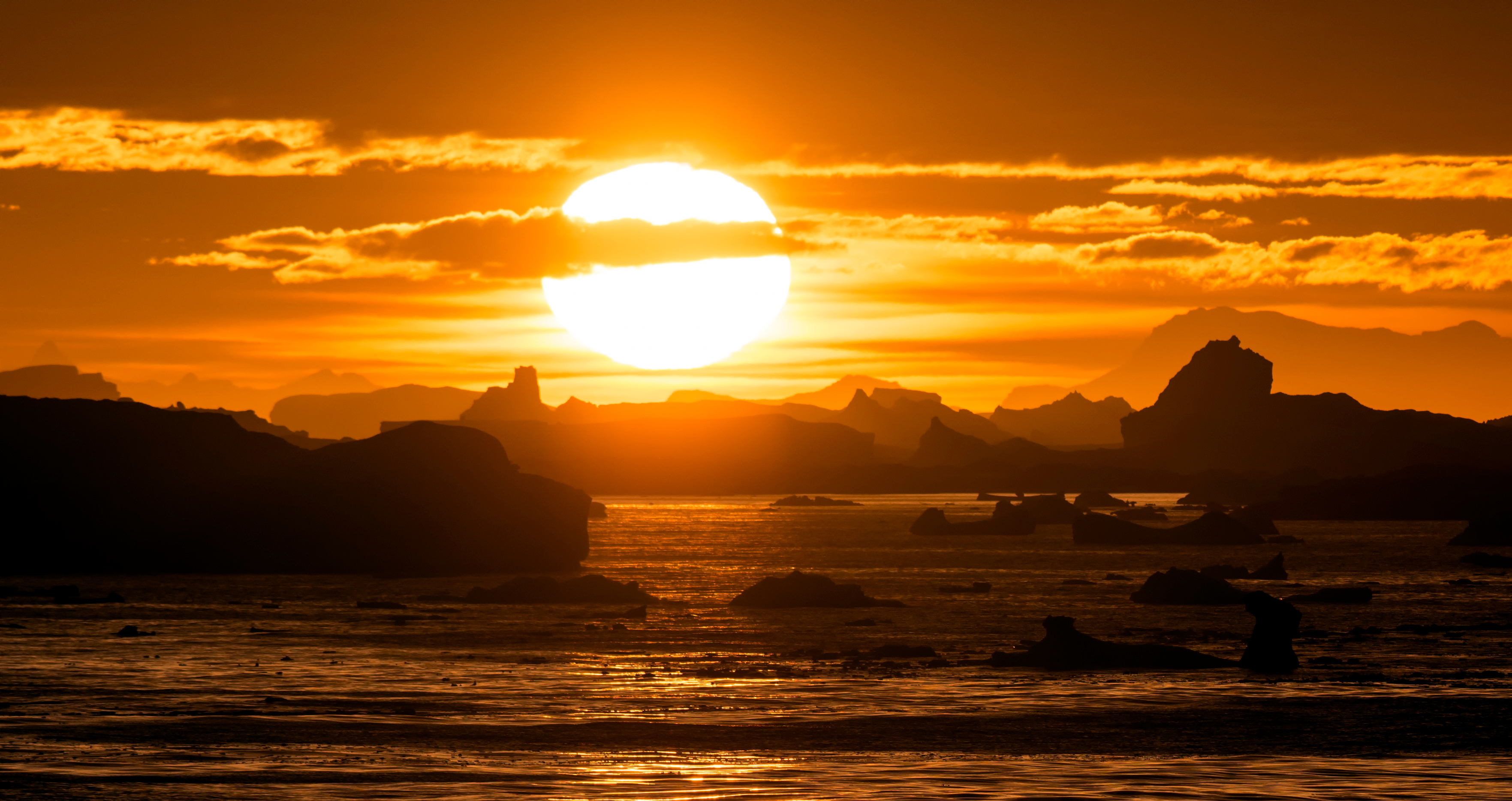 Sunset over Icebergs in Lemaire Channel, Antarctica